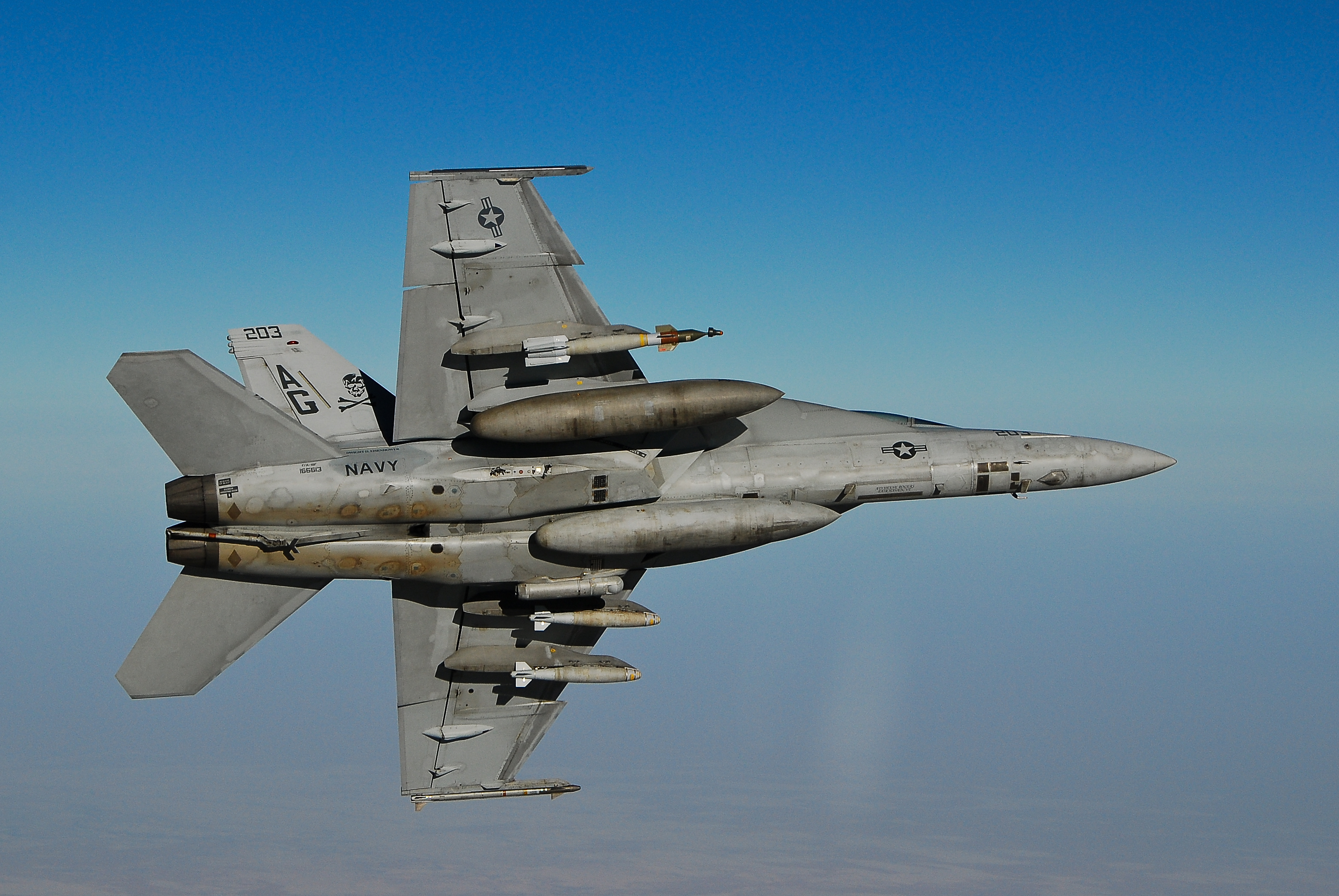 A U.S. Navy F/A-18F Super Hornet aircraft from Strike Fighter Squadron (VFA) 103 breaks away from his wingman April 29, 2009, during a close air support mission in support of coalition forces over Afghanistan. VFA 103 is part of Carrier Air Wing 7, embarked on aircraft carrier USS Dwight D. Eisenhower (CVN 69). The Eisenhower Carrier Strike Group is under way on a scheduled deployment supporting Operation Enduring Freedom and the ongoing rotation of forward-deployed forces.